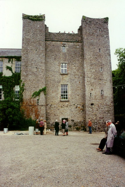 Medieval Tower House at Dardistown, Co. Meath Large square tower house erected 1465 and still inhabited. Seat of the Osbourne family for most of that time. Extended in stages to the west to the present Victorian frontage. Photograph taken during visit by the Co. Louth Archaeological & Historical Society